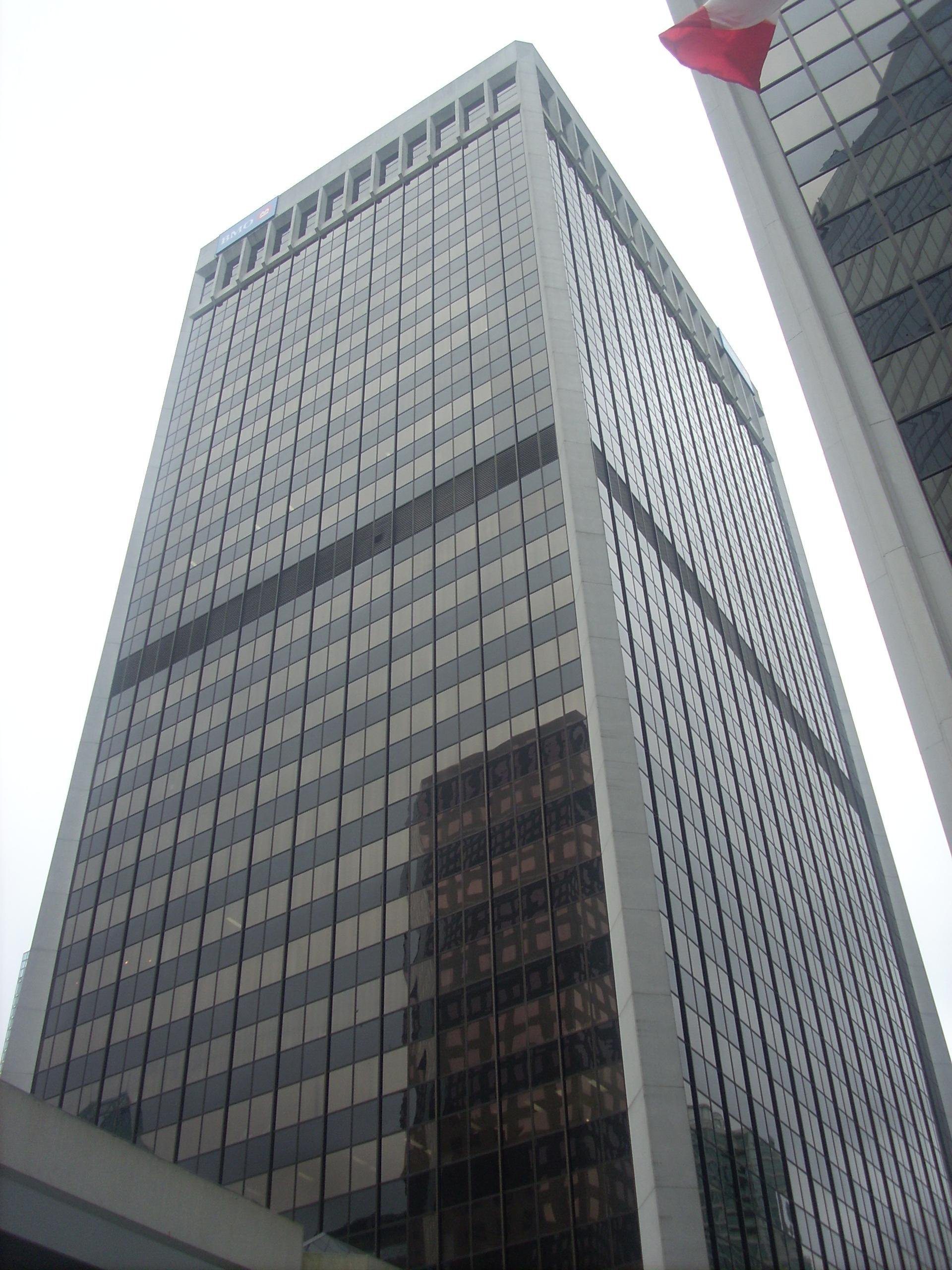 3 Bentall Centre photographed in Vancouver, British Coumbia, Canada at the 2010 Winter Olympics.